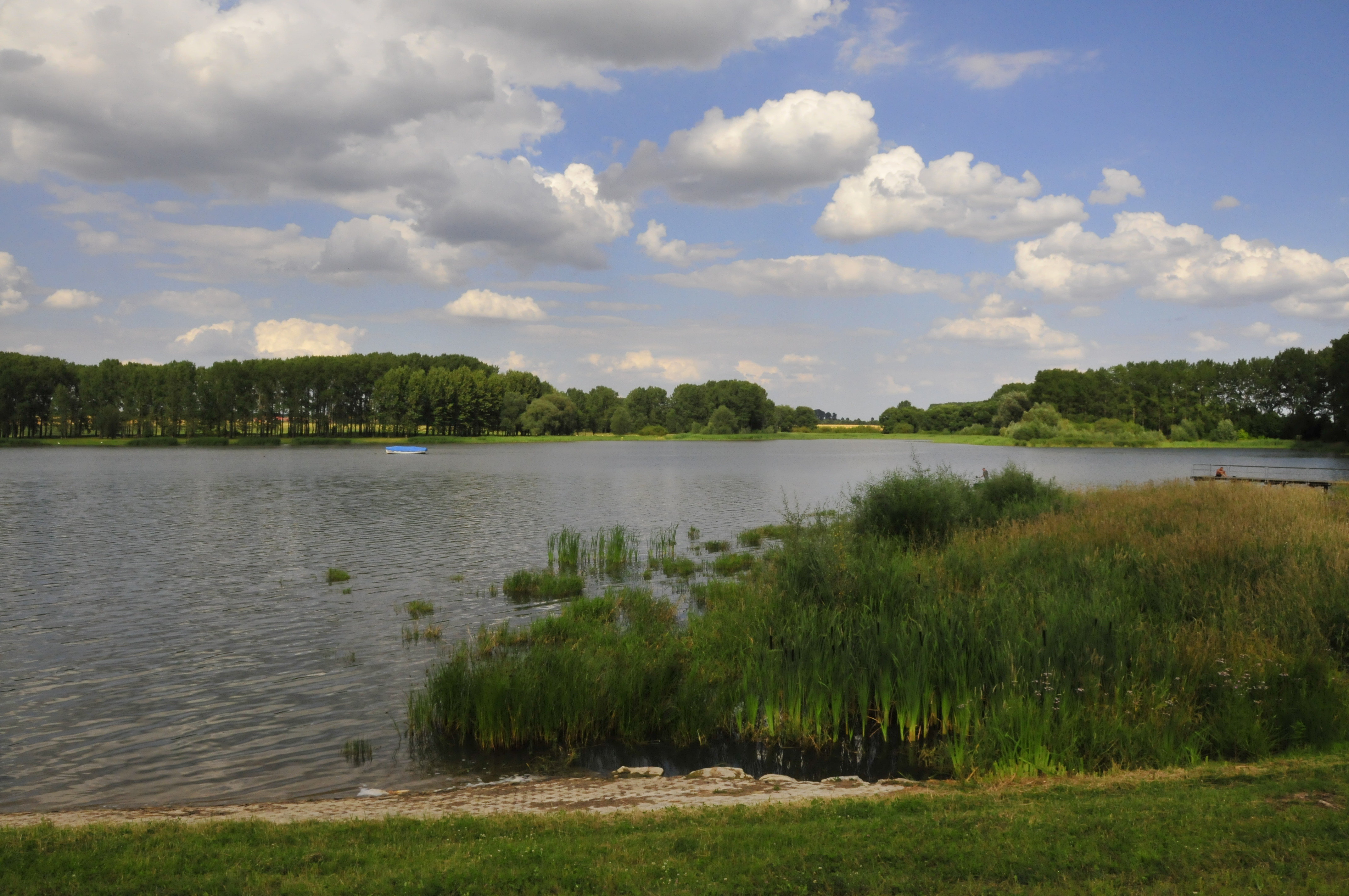 Friemar, reservoir